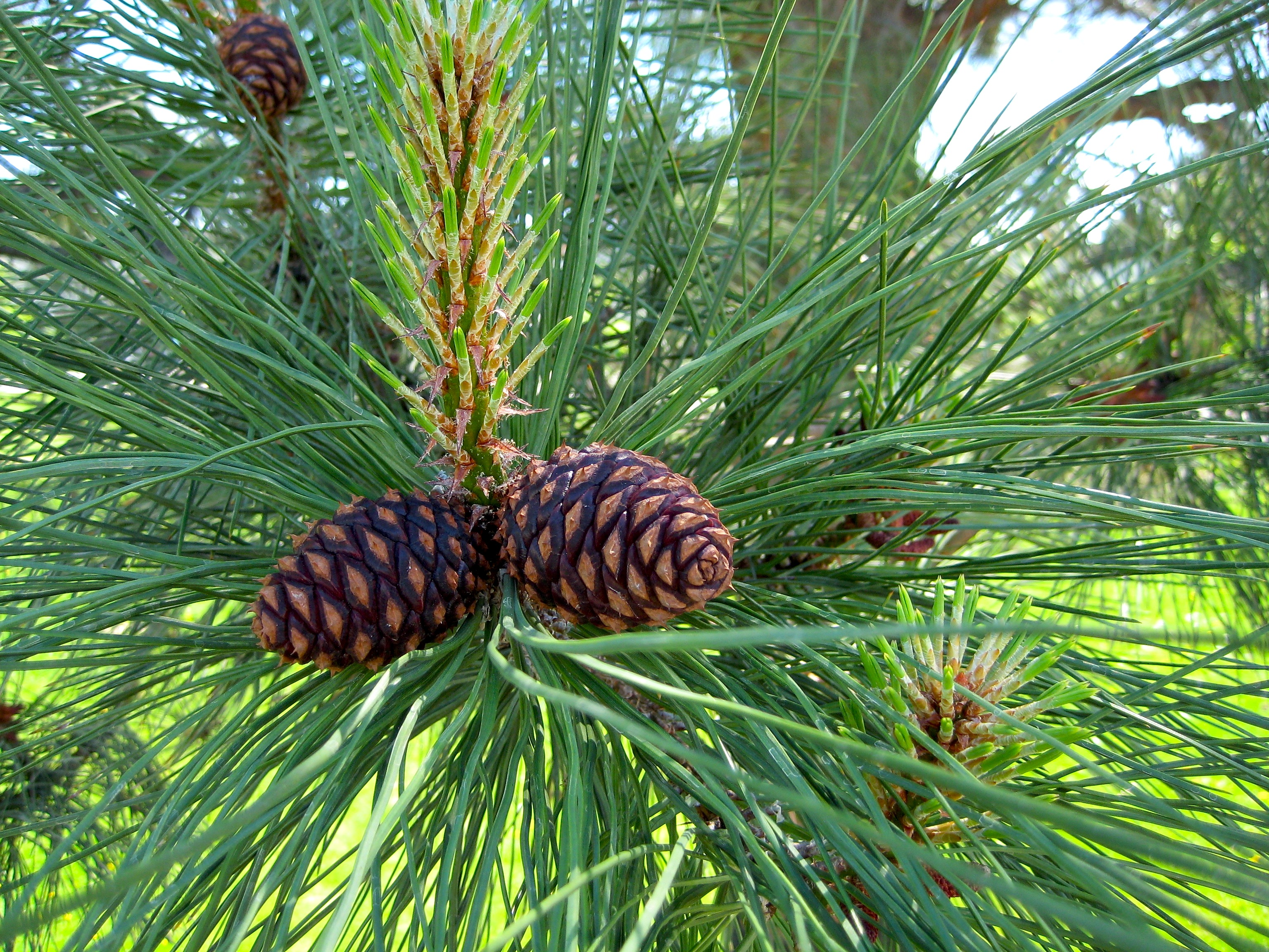 Pinus ponderosa subsp. ponderosa immature cones. North Thompson River Valley near Kamloops, British Columbia, Canada.